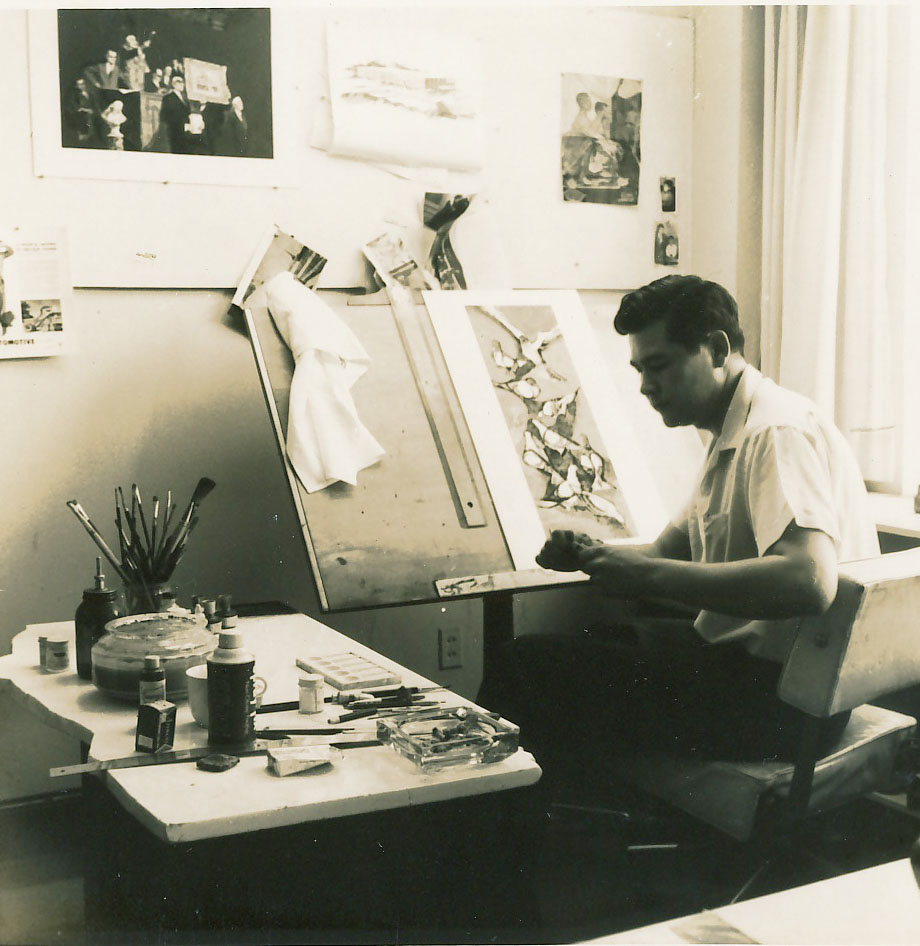 Herb's Chicago Studio Other information Family Photo